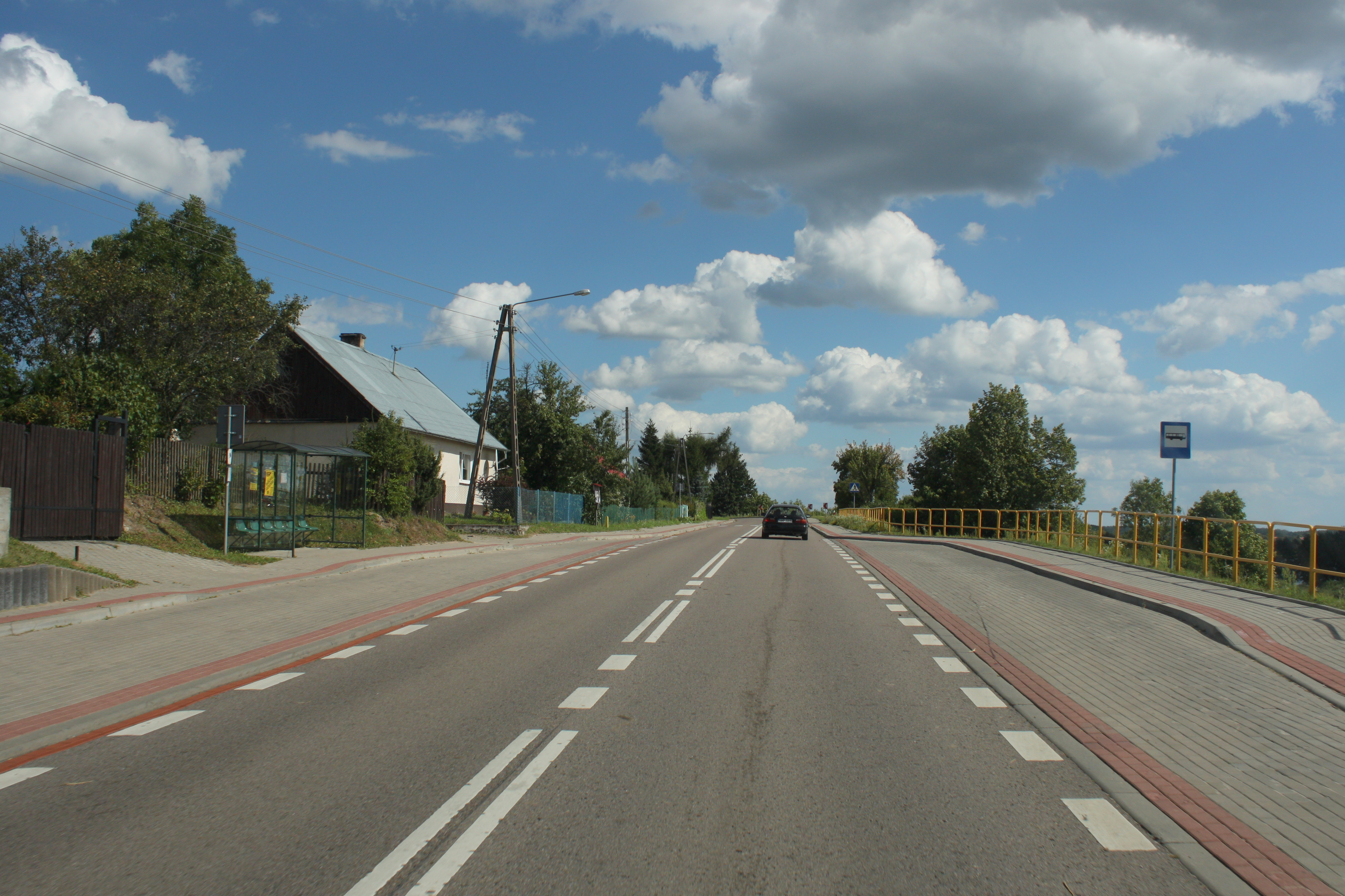 Road in Inulec.